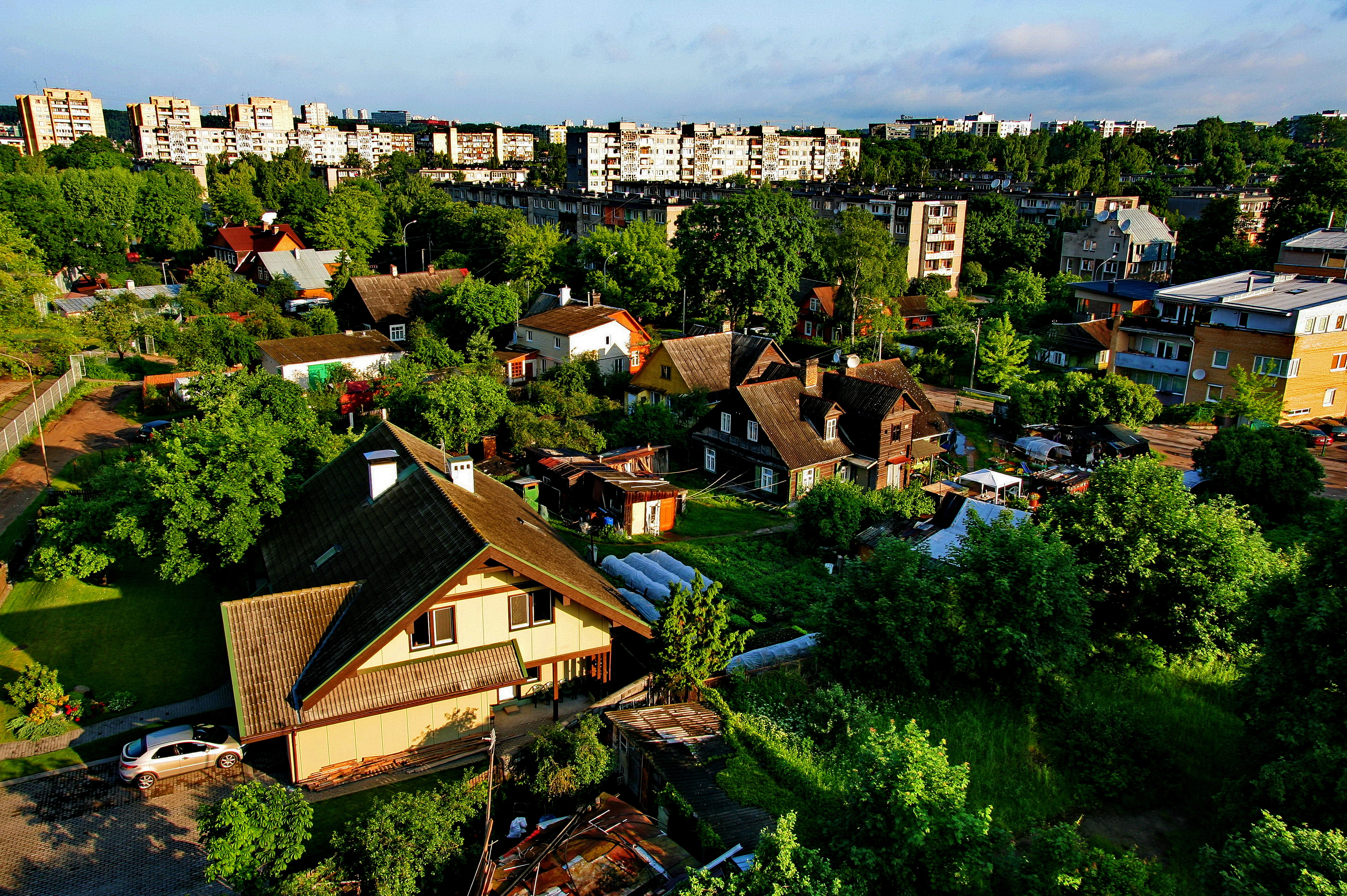 Bird's eye view over Losiovka, Žirmūnai